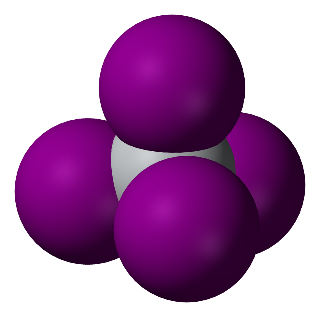 Space-filling model of the titanium tetraiodide molecule, TiI4